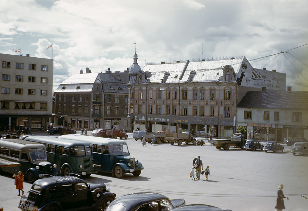 The Eastern Square in Hamar in Norway. Østre torg i Hamar i Norge. Location: Hamar, Hedmark fylke (county), Norway Photograph by: Fredrik Bruno Date: 23.07.1948 Format: Colour slide Persistent URL: Read more about the photo database (in english)